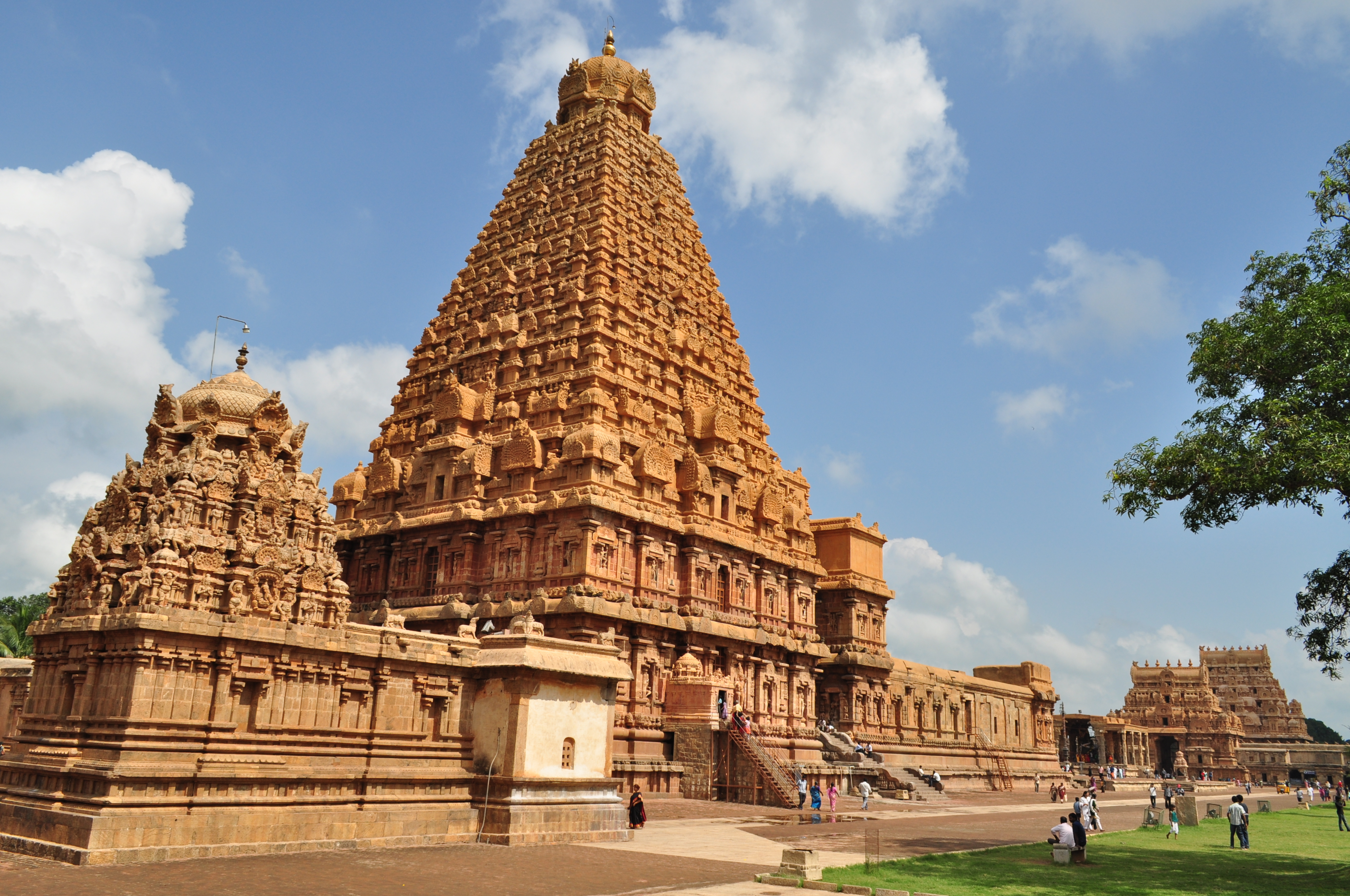 The Peruvudaiyar Kovil, also known as Brihadeeswara Temple, RajaRajeswara Temple and Rajarajeswaram at Thanjavur